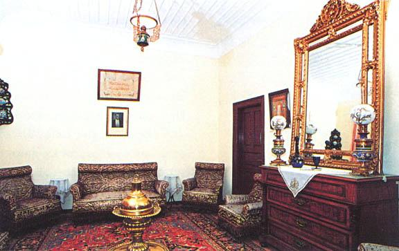 Living room, image from the Ataturk Museum, Thessaloniki, Central Macedonia, Greece